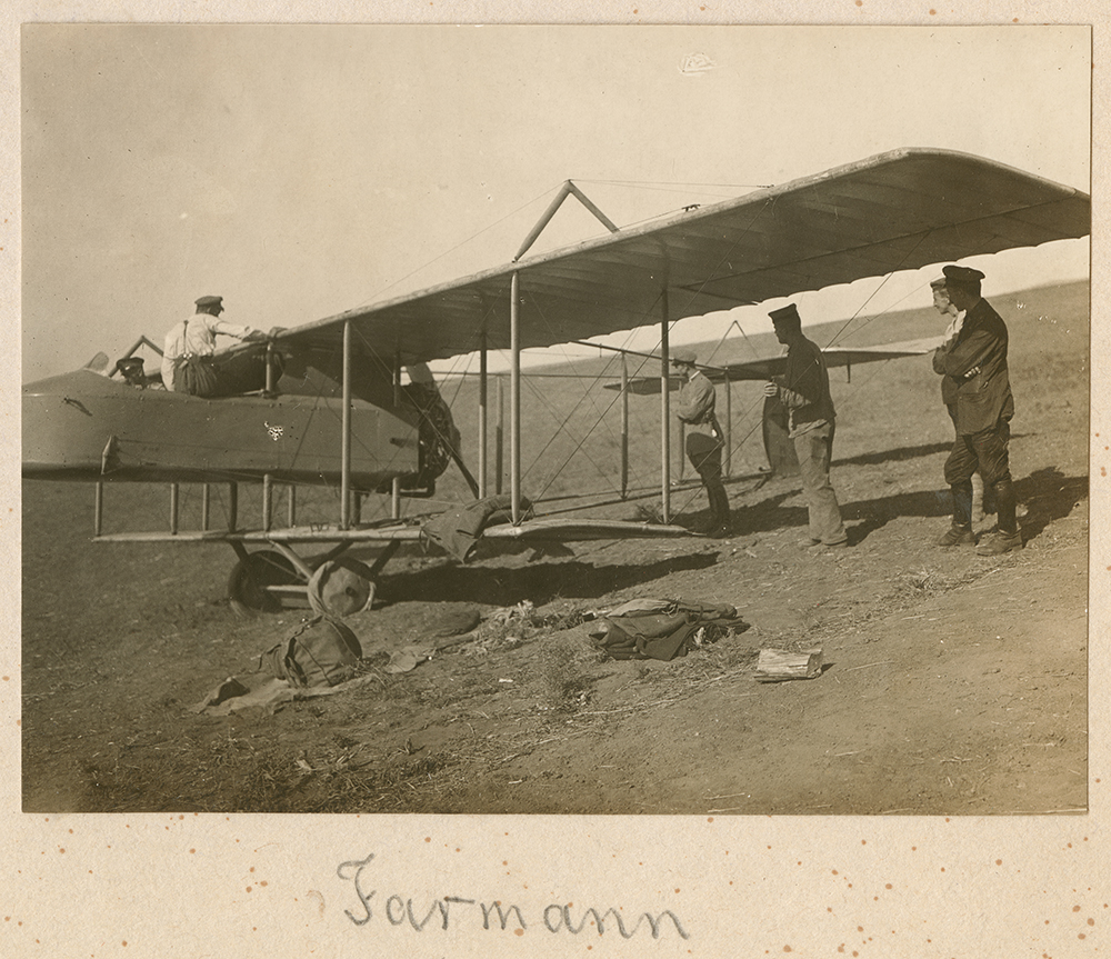 Title: Farman HF.30 Creator: Unknown Date: Spring 1918 Part Of: Place: Ukraine Description: German aviators inspecting a French-built Farman-30 (F.30) reconnaissance biplane, previously owned by the Russian Air Force. The Farman HF.30 was equipped with a 150 or 155 hp "Salmson" motor. Source: Marat Khairulin, Russian aviation historian Physical Description: 1 photographic print: gelatin silver; 8 x 11 cm. on 34 x 44 cm. mount File: ag1982_0048x_32g_sm_opt.jpg Rights: Please cite DeGolyer Library, Southern Methodist University when using this file. A high-resolution version of this file may be obtained for a fee. For details see the web page. For other information, . Both the full portfolio and the 263 individual photographs, scanned at a higher resolution, are available. View the full portfolio: View the individual photographs: For more information and to view the image in high resolution, View the